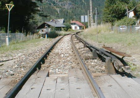 Les Praz-de-Chamonix - Meter-gauge railway with third rail